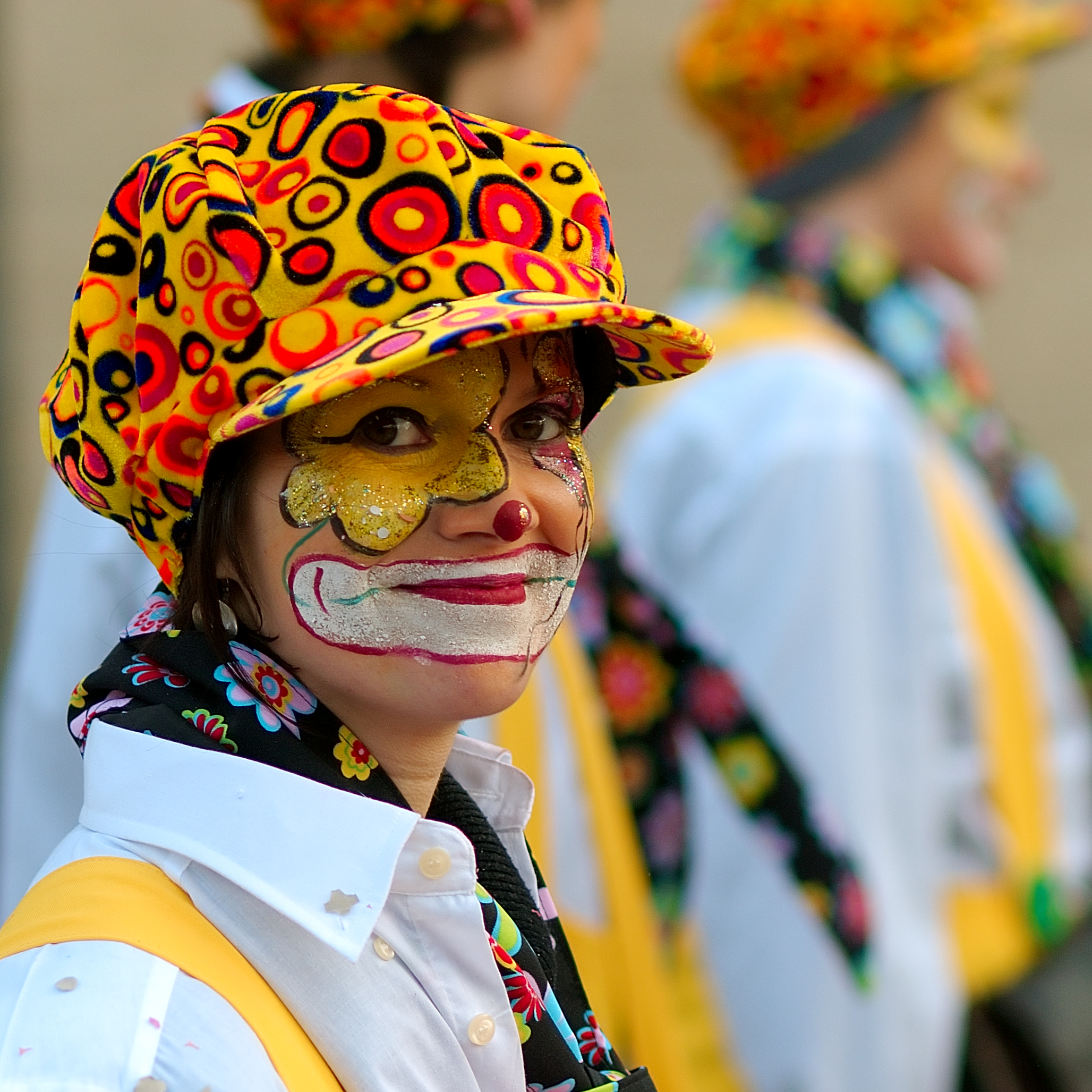 Carnival Malmedy Belgium